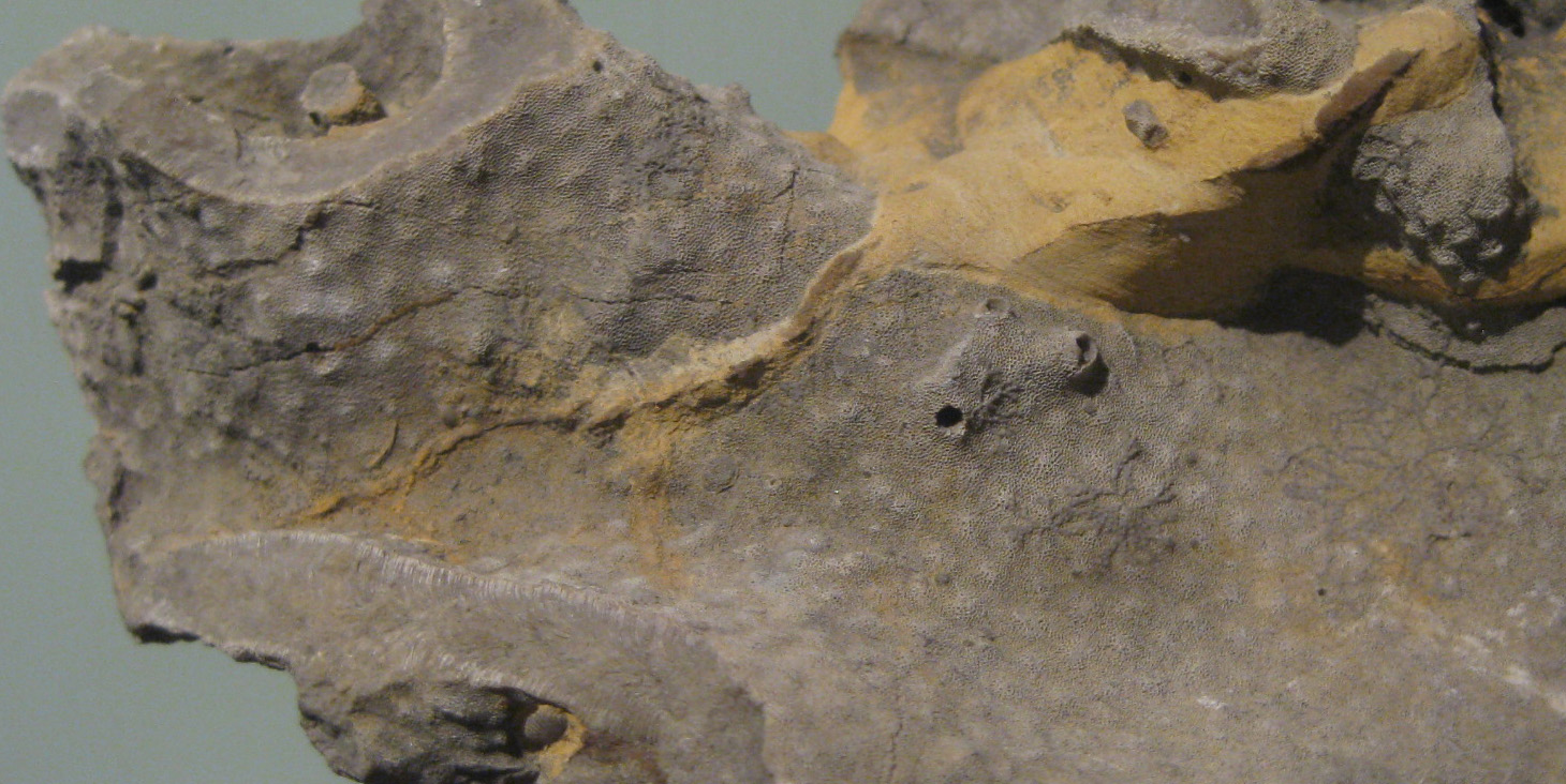 Detail of bryozoan Hallopora fossil specimen on display at Smithsonian, Washington, DC